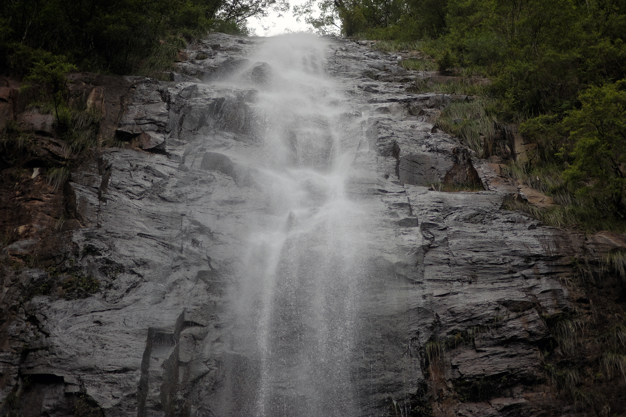 Protesters Falls 2015